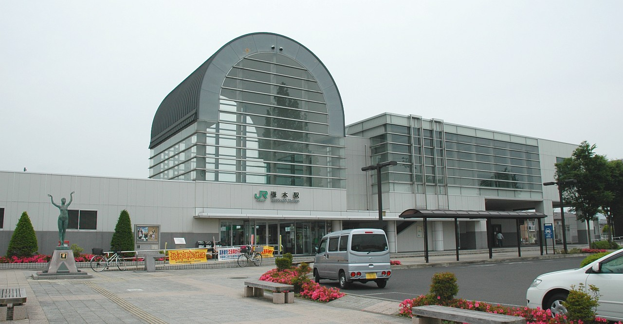 Tsukinoki Station, East Japan Railway as well as Abukuma Express Line, Miyagi, Japan